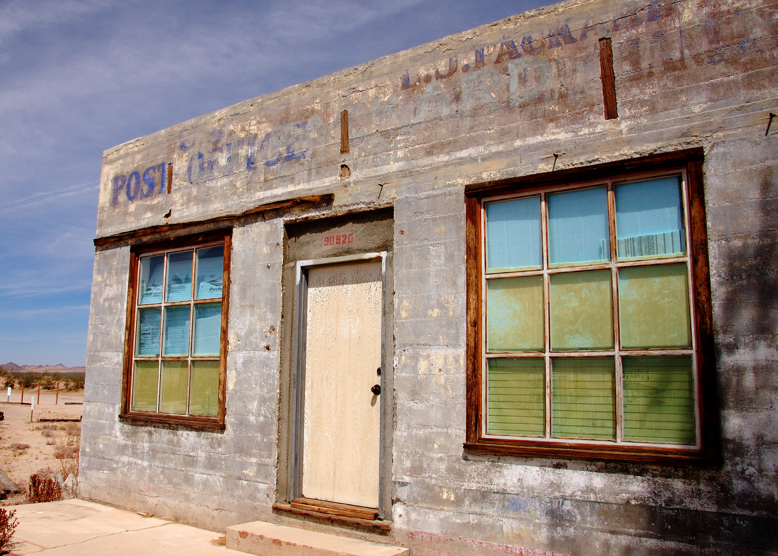 The abandonded post office of Kelso, CA. In the Mojave National Preserve.